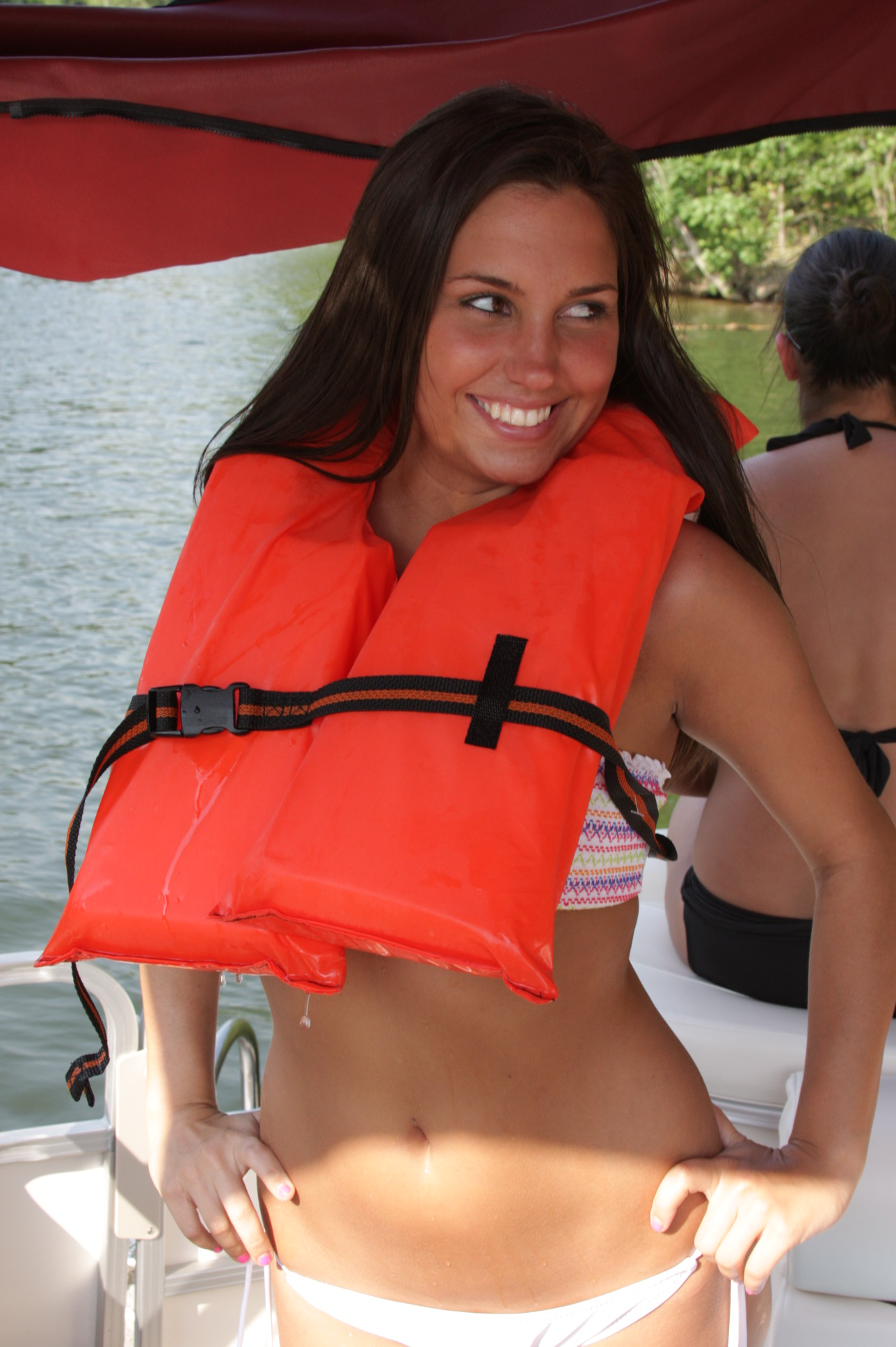 Girl wearing an orange Life Jacket Model.